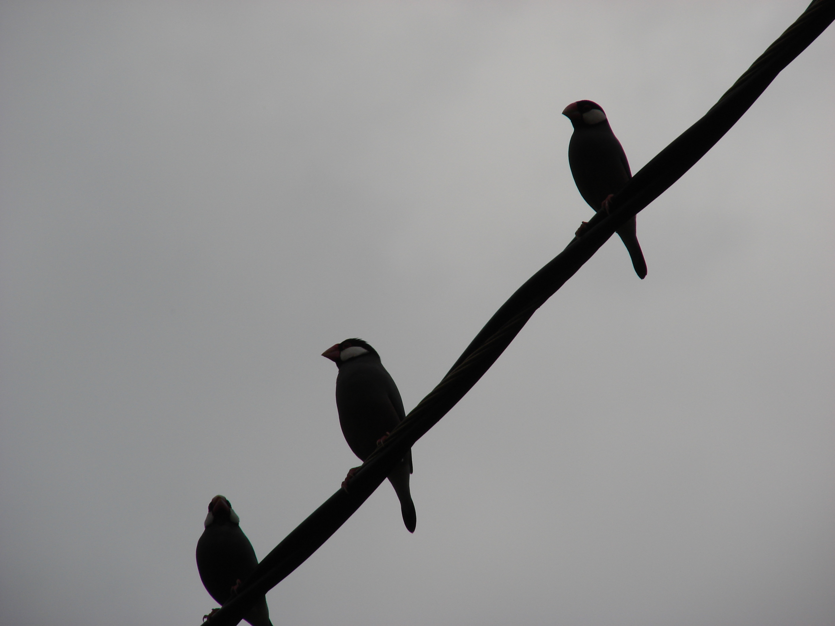 Psidium guajava (habitat with java sparrows on wire). Location: Maui, Makawao